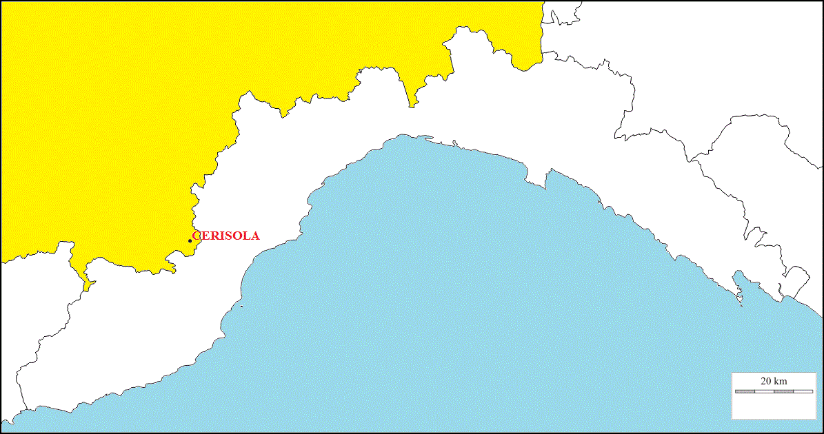 Cerisola, Garessio (CN)